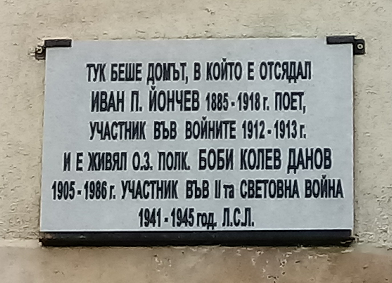 Ivan Yonchev, Bobi Kolev Danov memorial plaque, Sofia, Krasno Selo, "Zavalska kitka" Str.